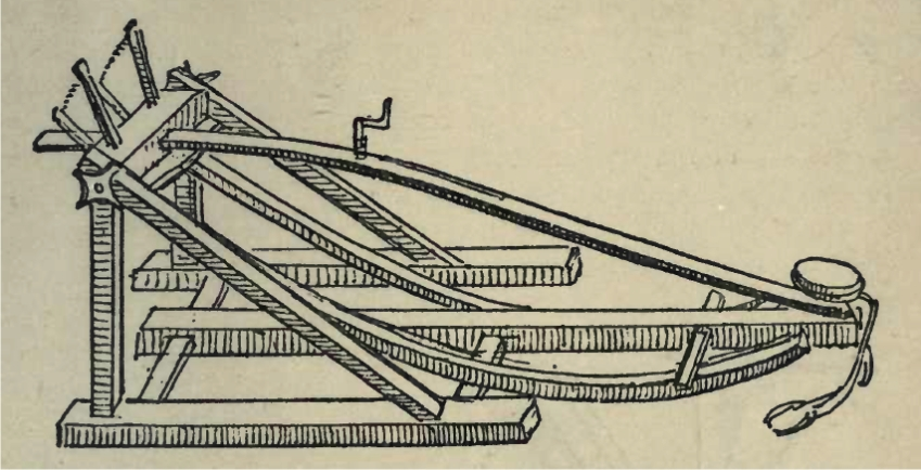 War engine to shoot large stones, balls, or pieces of rock, from the drawings of Zeitblom, fifteenth century, in the library of Prince Waldburg Wolfegg.